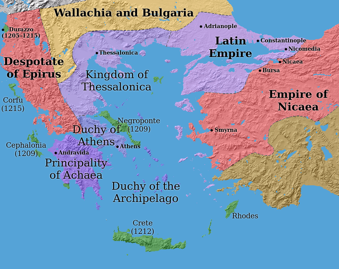 The Latin Empire after the 4th crusade, c. 1204; borders are approximate